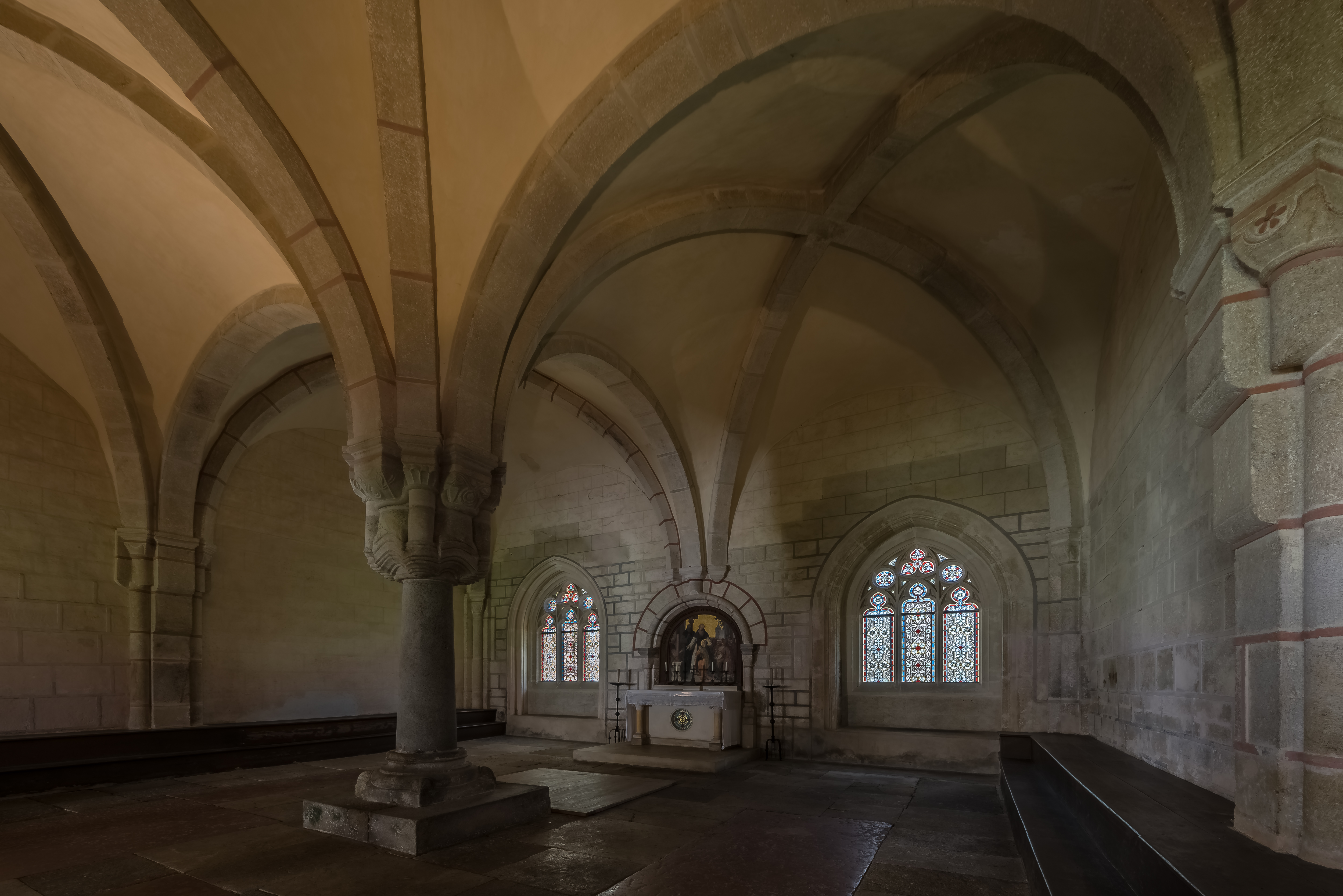 Chapter house of Zwettl Abbey, Lower Austria